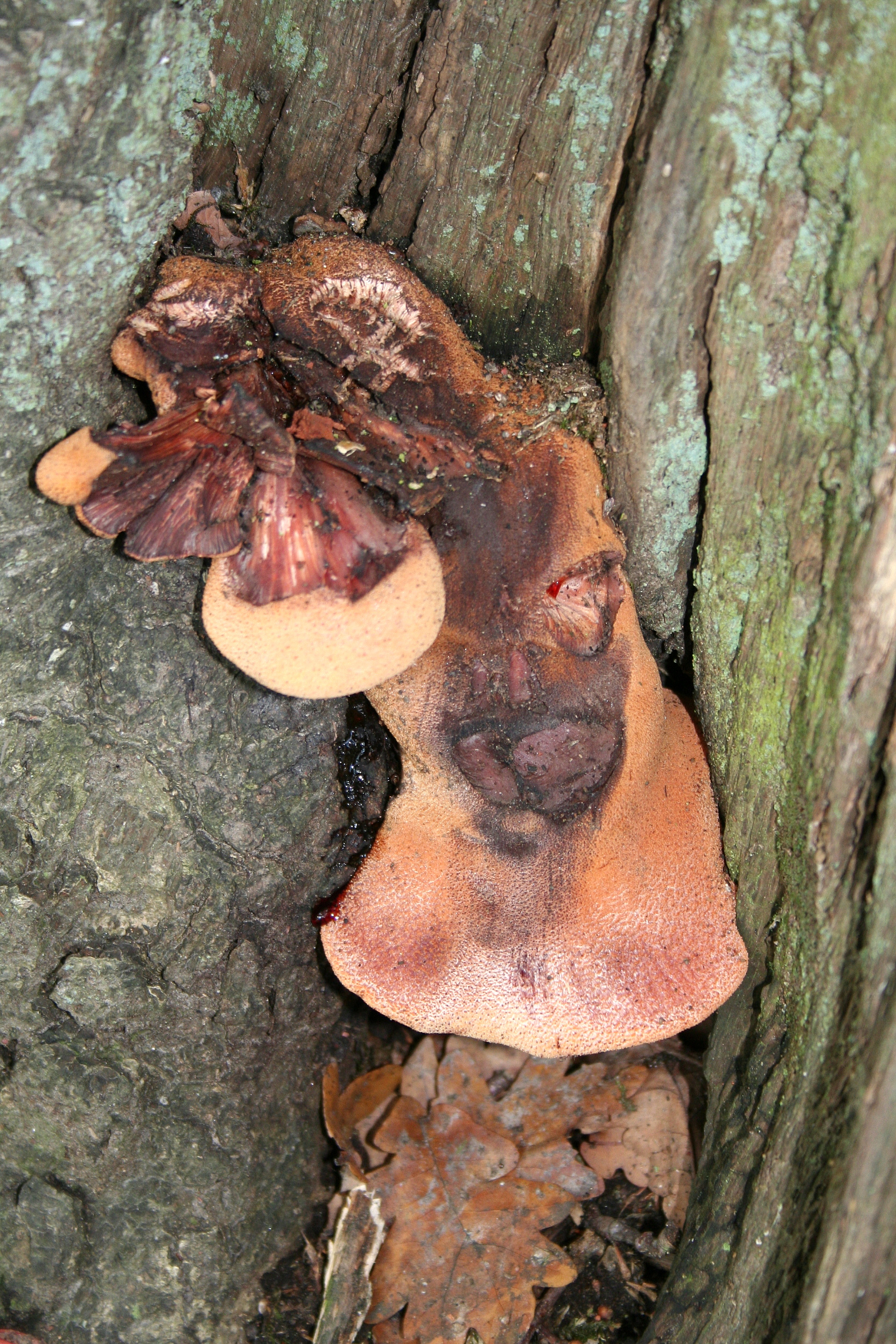 Beefsteak Fungus, Morlanwelz-Mariemont, Belgium